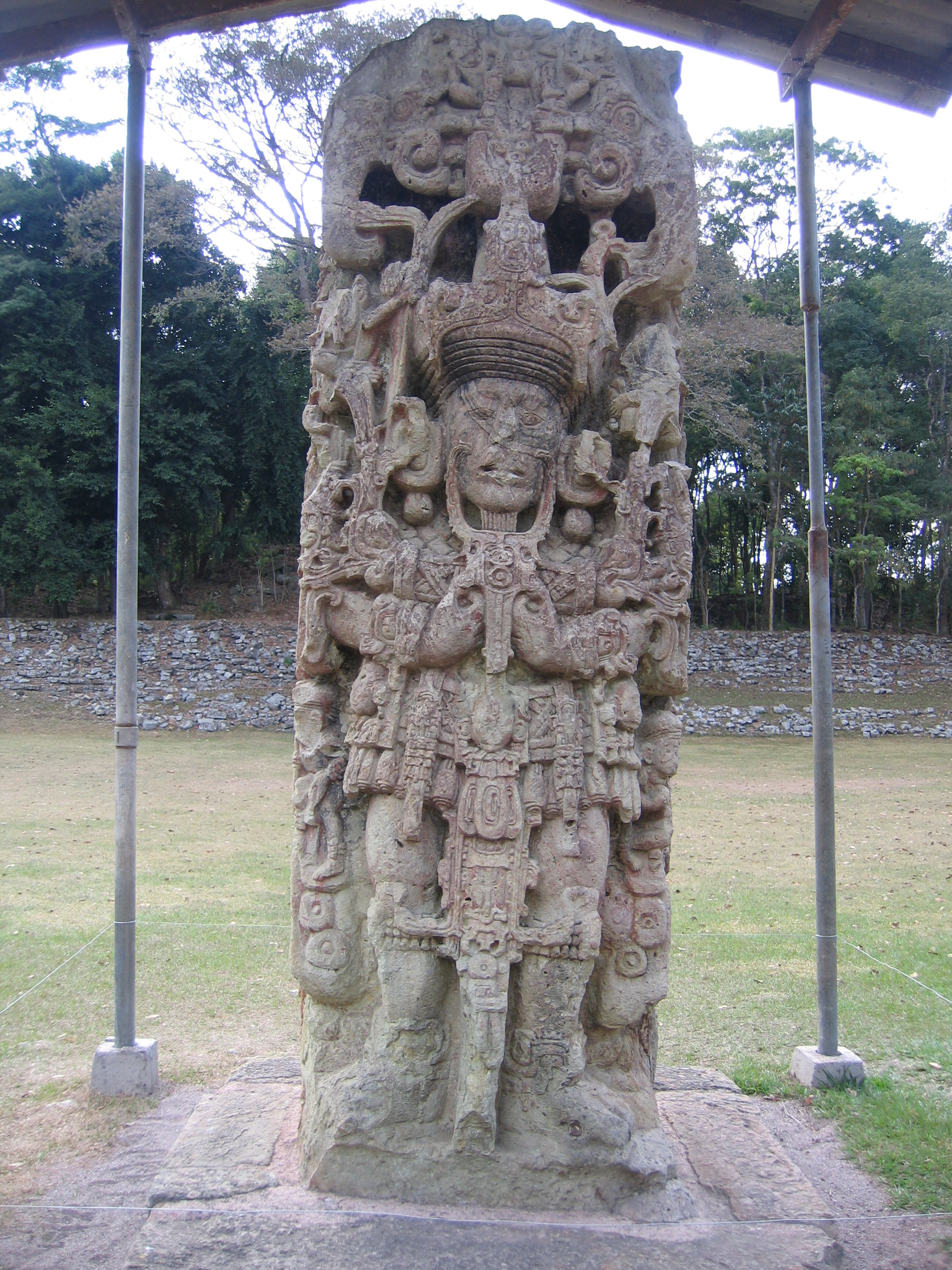 From the mayan site Copán